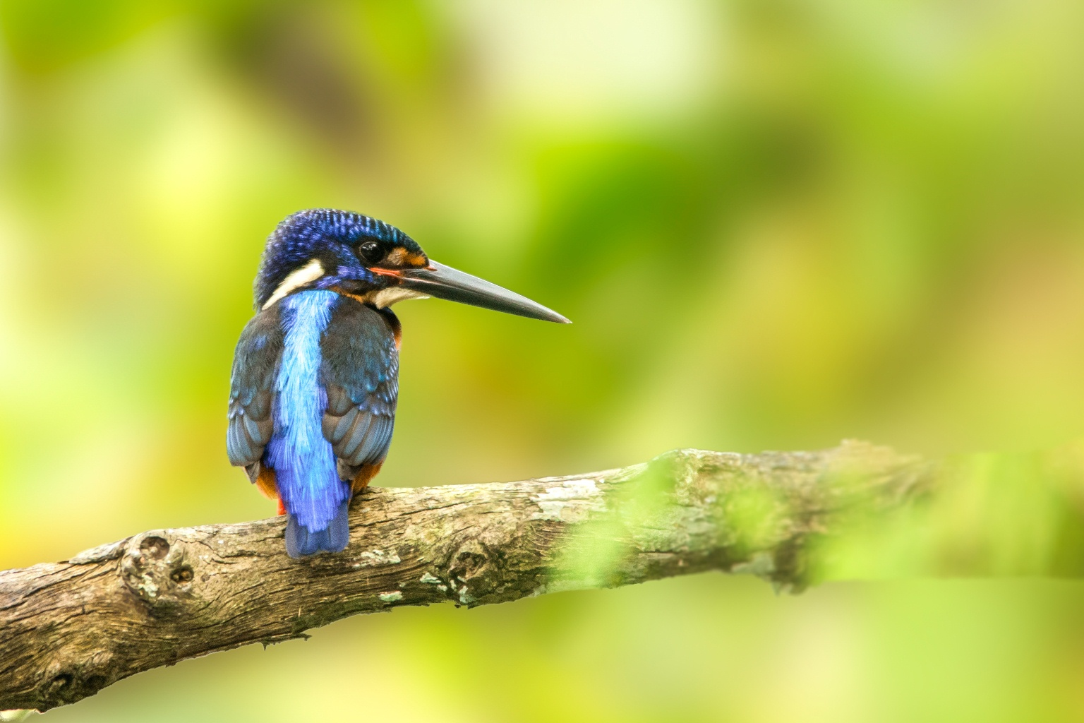 Blue-eared kingfisher English synonyms : Deep-blue Kingfisher, Malaysian Kingfisher, Ceylon Blue-eared Kingfisher (phillipsi)